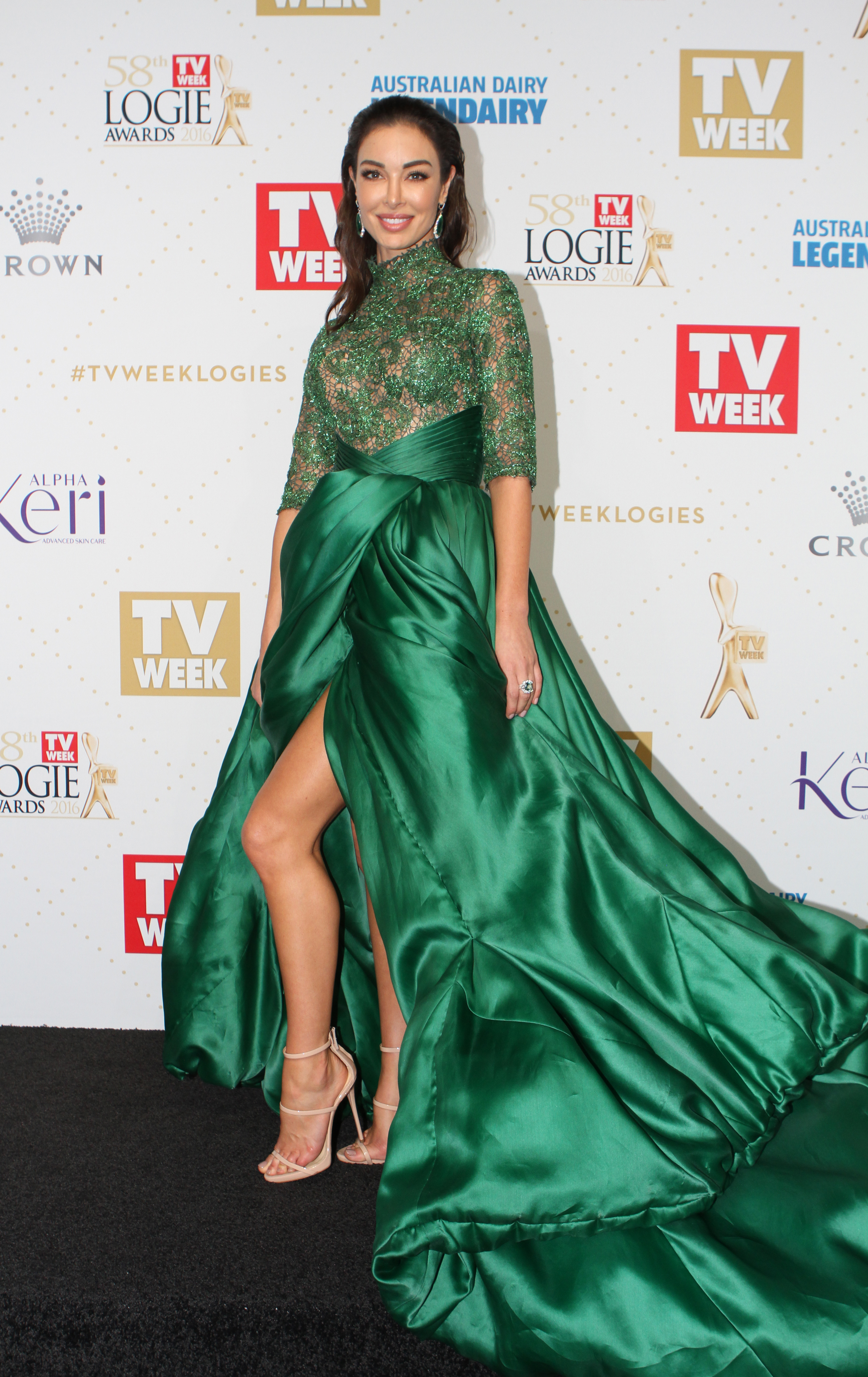 Laurina Fleure arrives at the 58th Annual Logie Awards at Crown Palladium